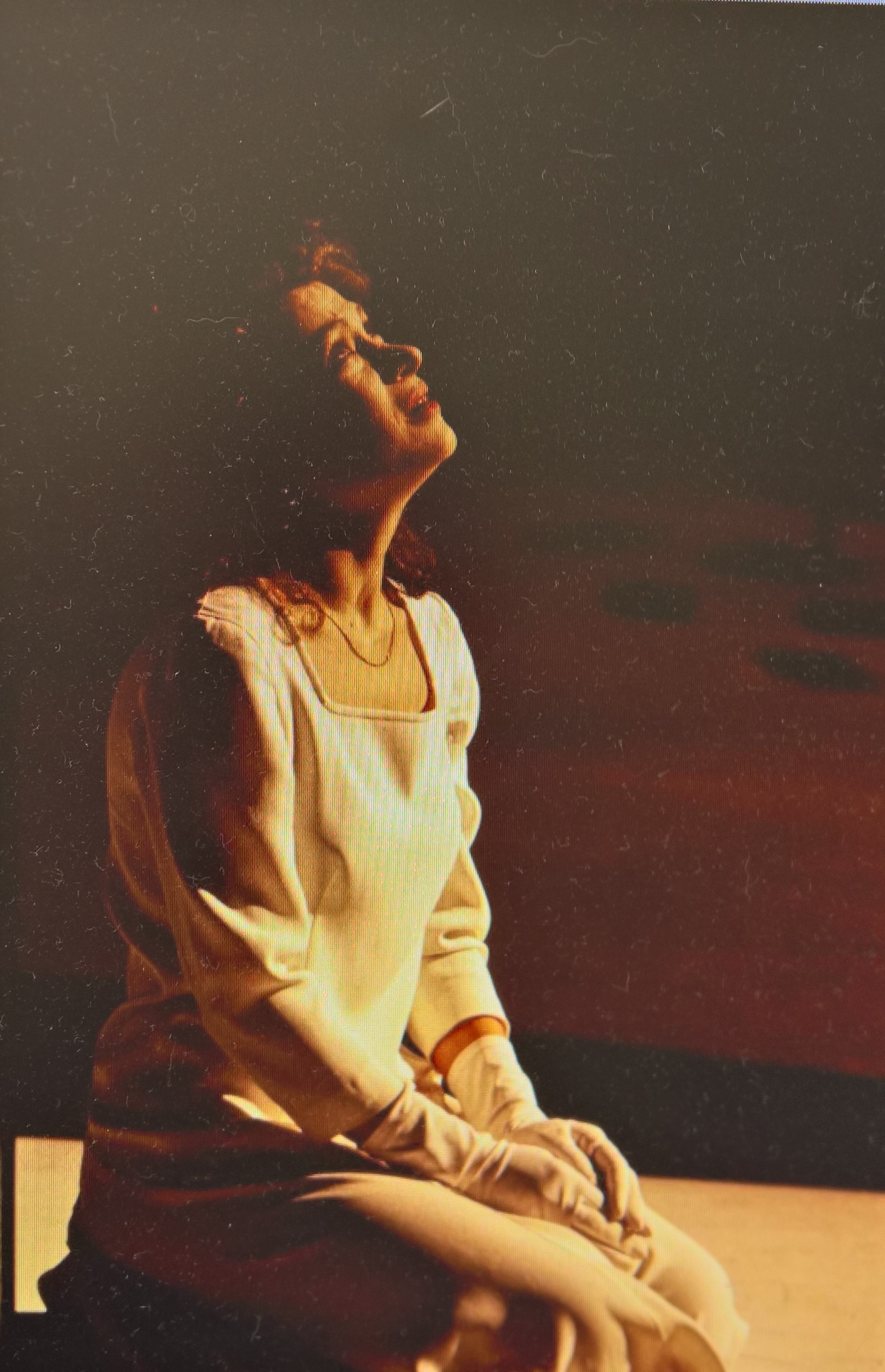 Falsch Vitez 2